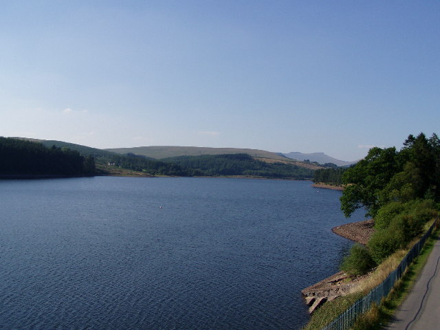 Pontsticill Reservoir. Next to the Brecon Mountain Railway